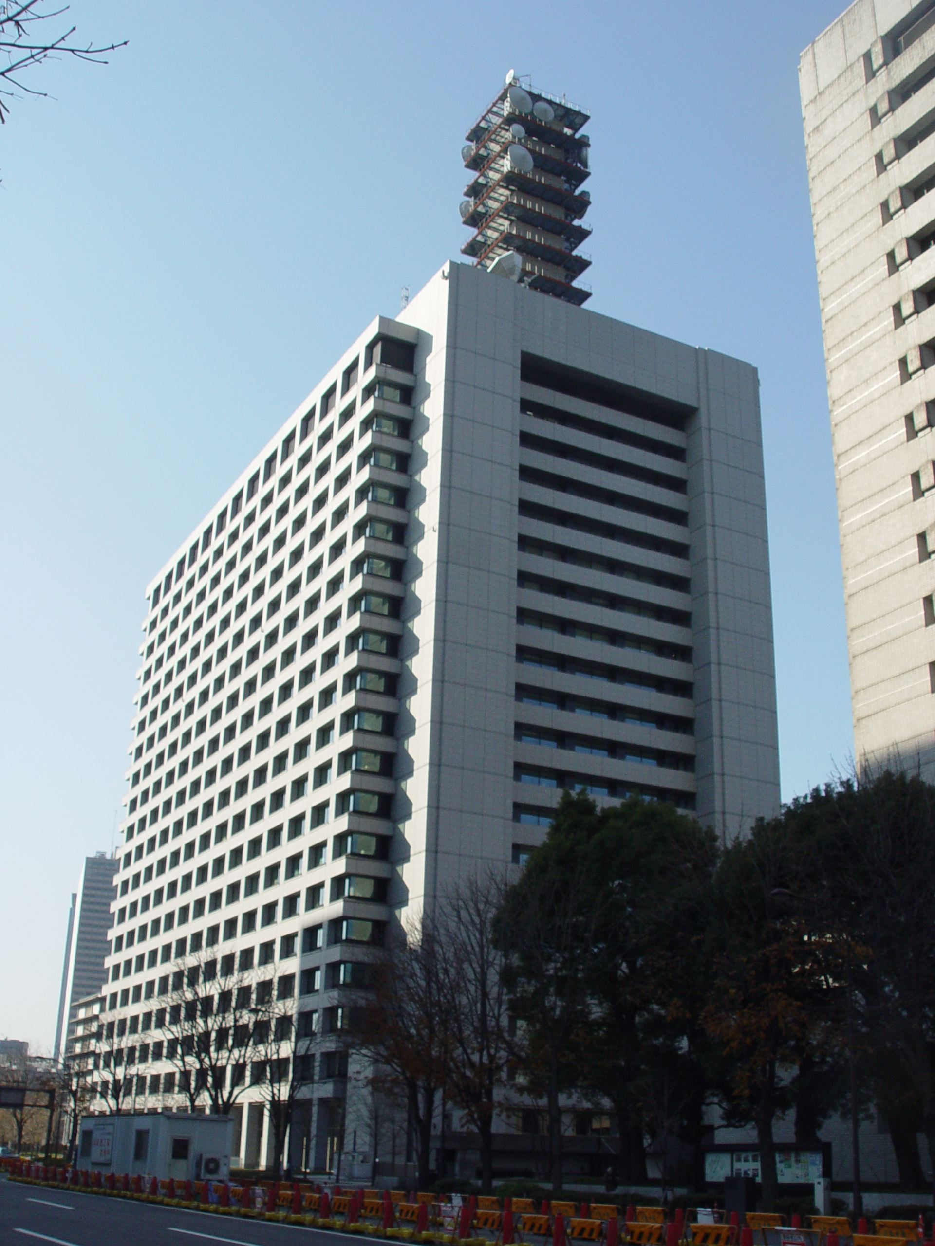 2nd Building of the Central Common Government Office at 2-1-2 Kasumigaseki in Minato, Tokyo, JapanIt houses the Ministry of Internal Affairs and Communications (formerly Ministry of Public Management, Home Affairs, Posts and Telecommunications), the Japan Transport Safety Board (JTSB), and the National Public Safety CommissionPrior to the 2008 establishment of JTSB, it housed the Japan Marine Accident Inquiry Agency (JMAIA) and the Aircraft and Railway Accidents Investigation Commission (ARAIC)